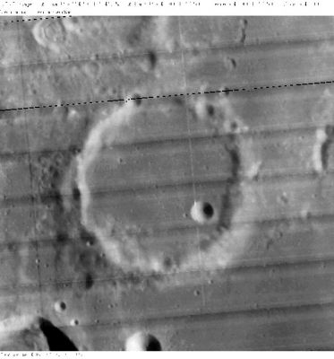 LO-IV-060 The 6-km crater on the floor is Cook A. The craters partially visible along the lower margin are 36-km Monge and 9-km Cook G.